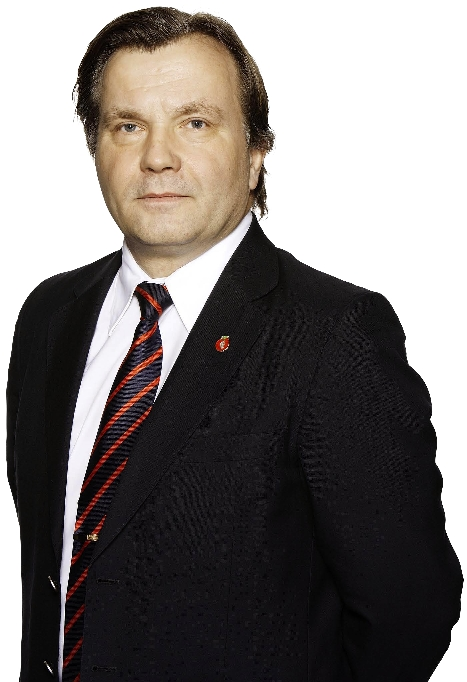 Ib Thomsen